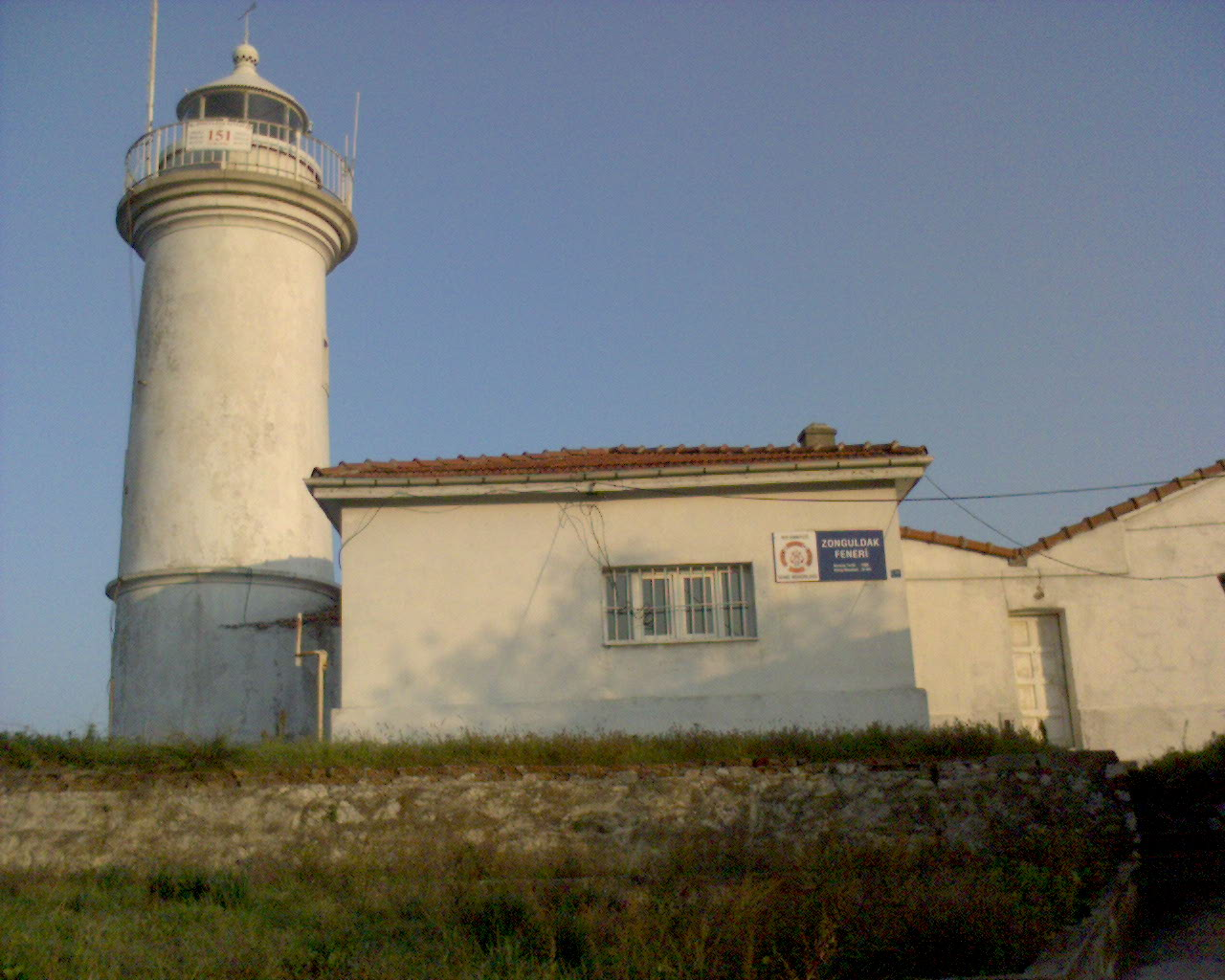 Zonguldak Lighthouse.